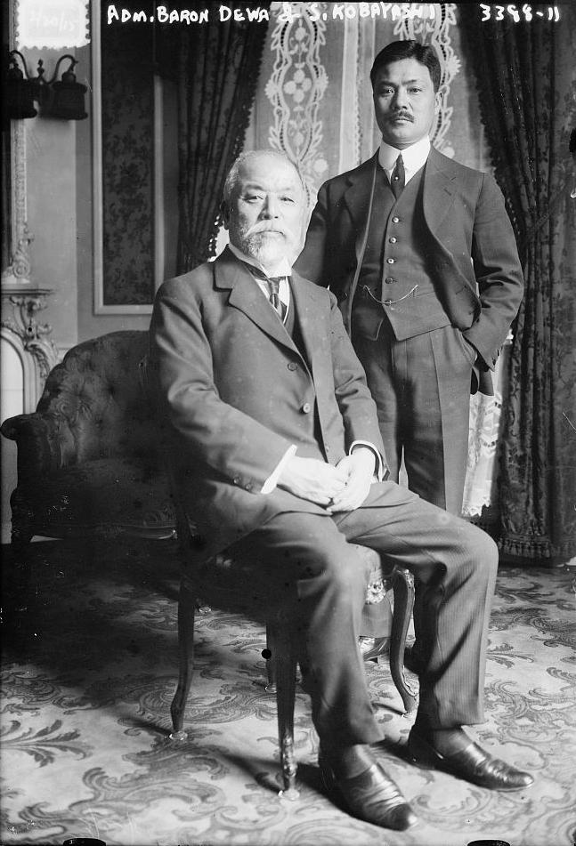 Adm. Baron Dewa and Seizō Kobayashi (小林躋造)